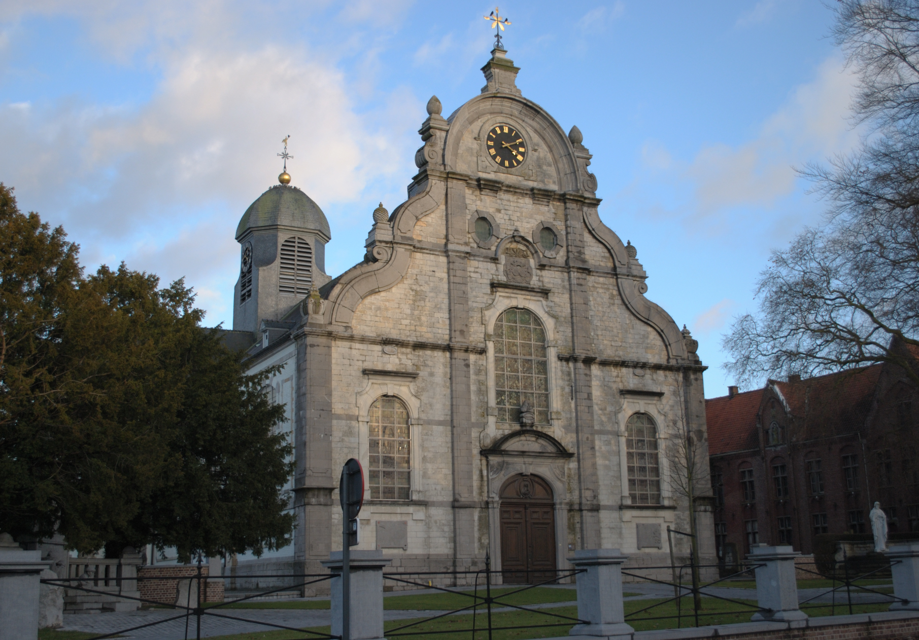 Church of Saint Peter at the village of Meerbeke, commune of Ninove, Belgium, viewed from the Northwest. Nikon D60 f=26mm f/4.5 at 1/400s ISO 200. Edited using Nikon ViewNX 1.0.3 and Adobe Photoshop 4.0.